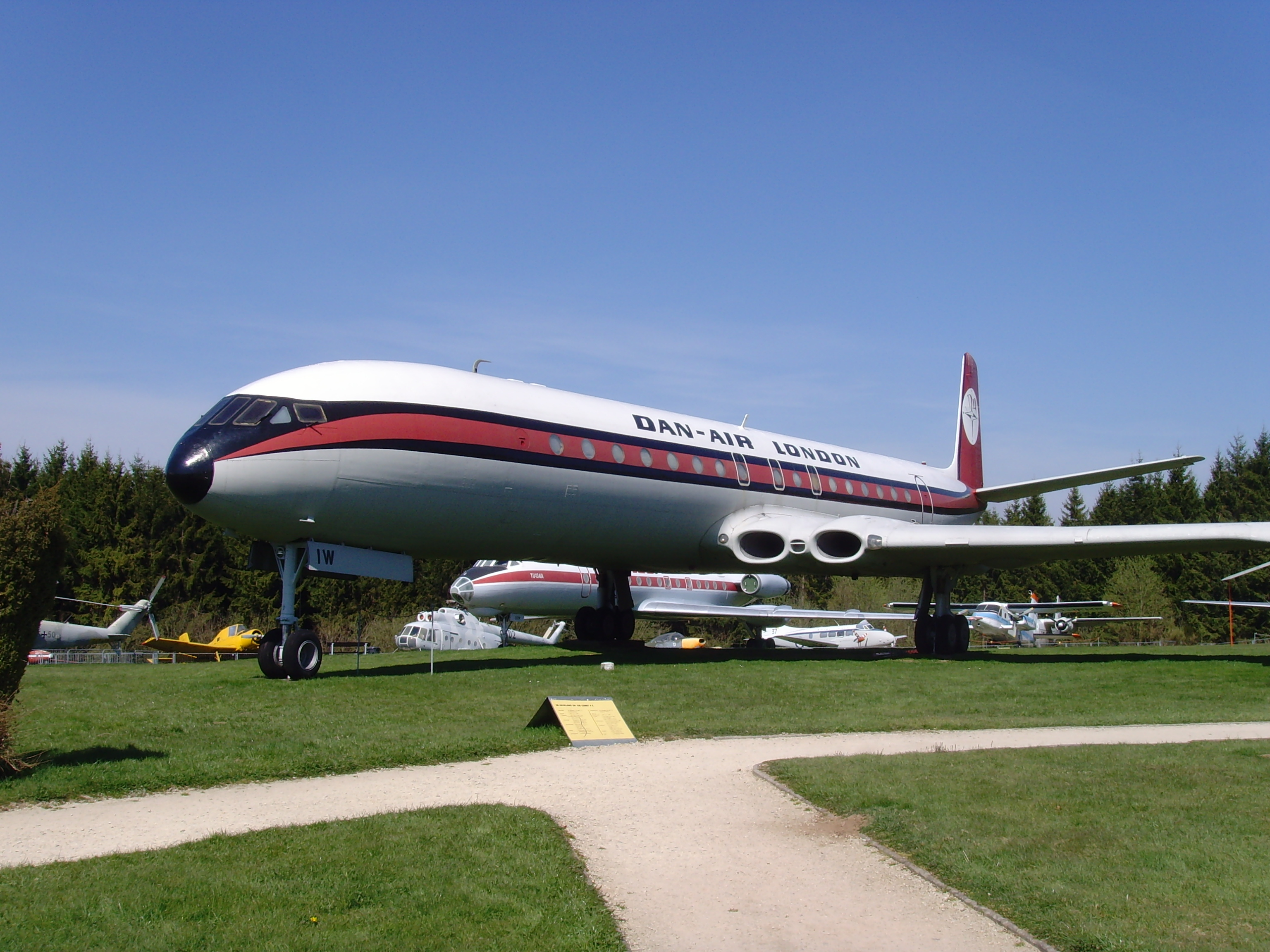 De Havilland DH-106 Comet 4C, G-BDIW, work # 6470 at the # Flugausstellung Hermeskeil exhibit.